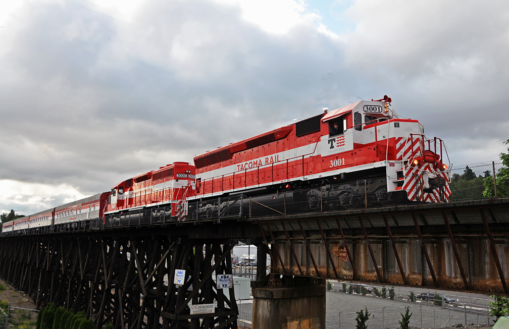 Diesel power for part of the trip out to Mineral. Crossing trestle in Tacoma, once a part of the Milwaukee. This ran to Eatonville where the passengers changed to the Mt. Rainier Scenic equipment.